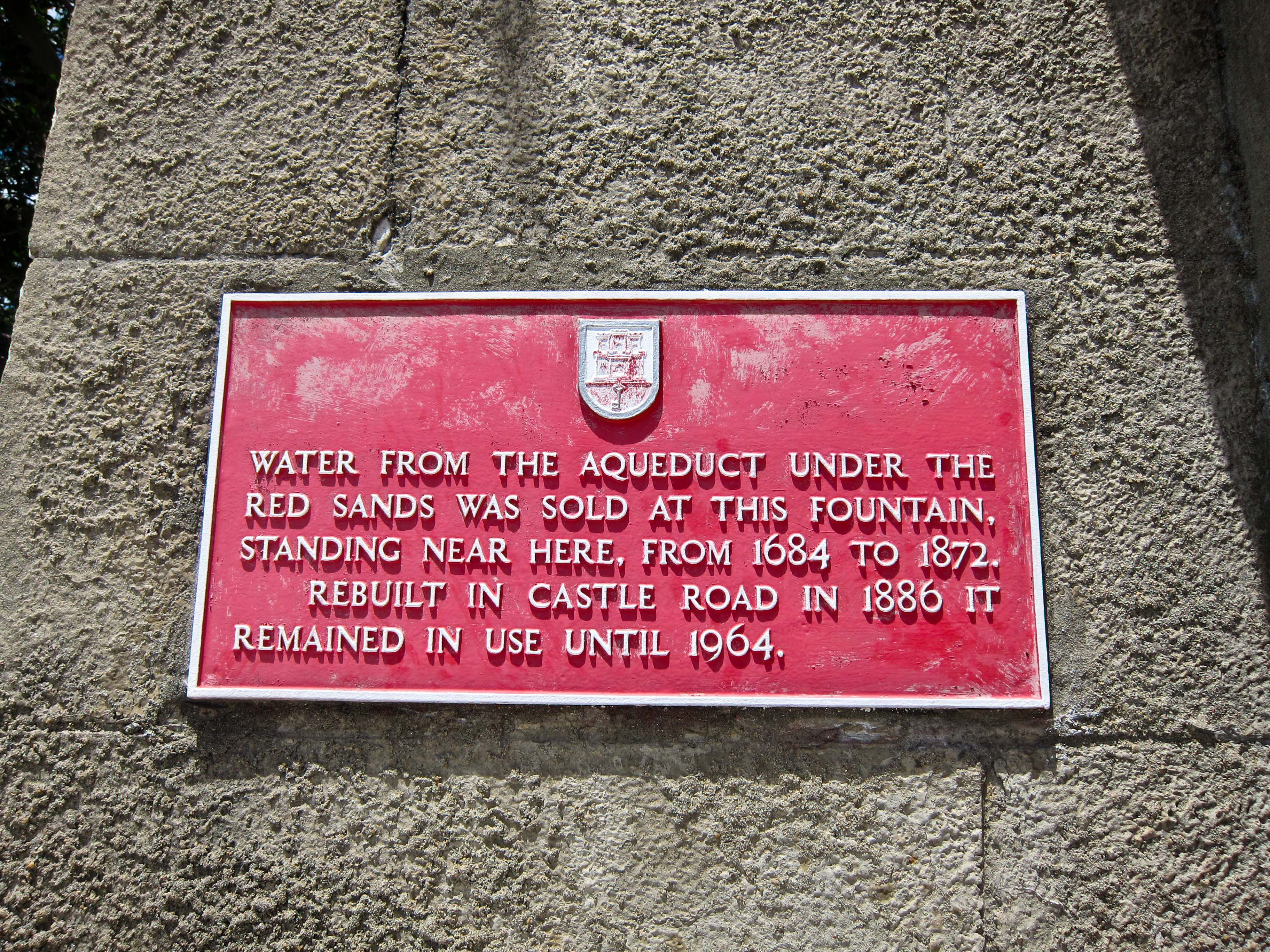 Old fountain which used to provide water from an ancient aqueduct in Gibraltar.